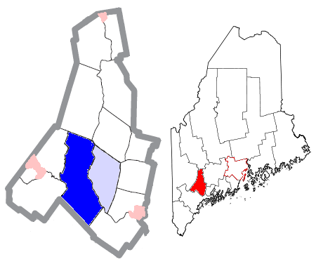 Map of the divisions of Androscoggin County, Maine, United States, with the city of Auburn highlighted in dark blue. The city of Lewiston is light blue; towns are white; and pink areas are census-designated places within towns.